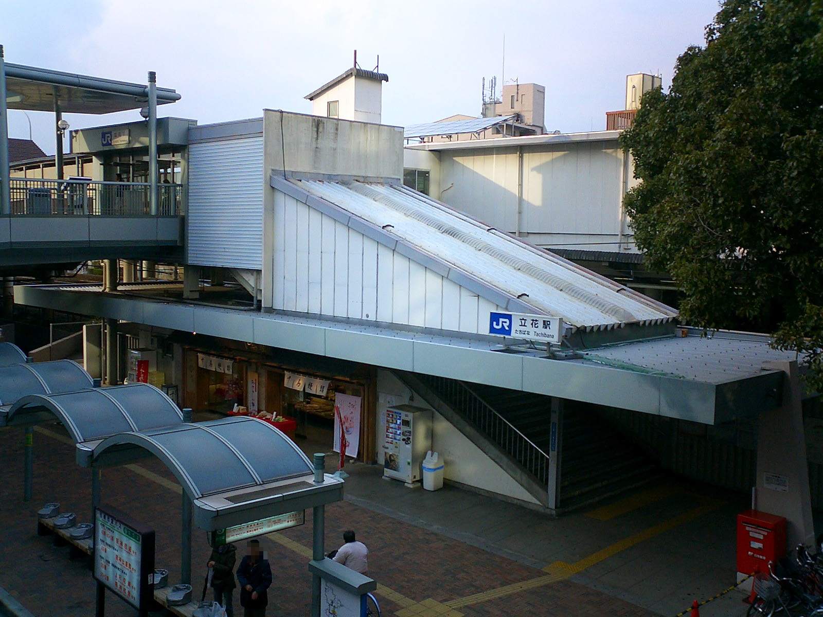 West Japan Railway Tōkaidō Main Line（JR Kōbe Line） Tachibana Station Building South Gate